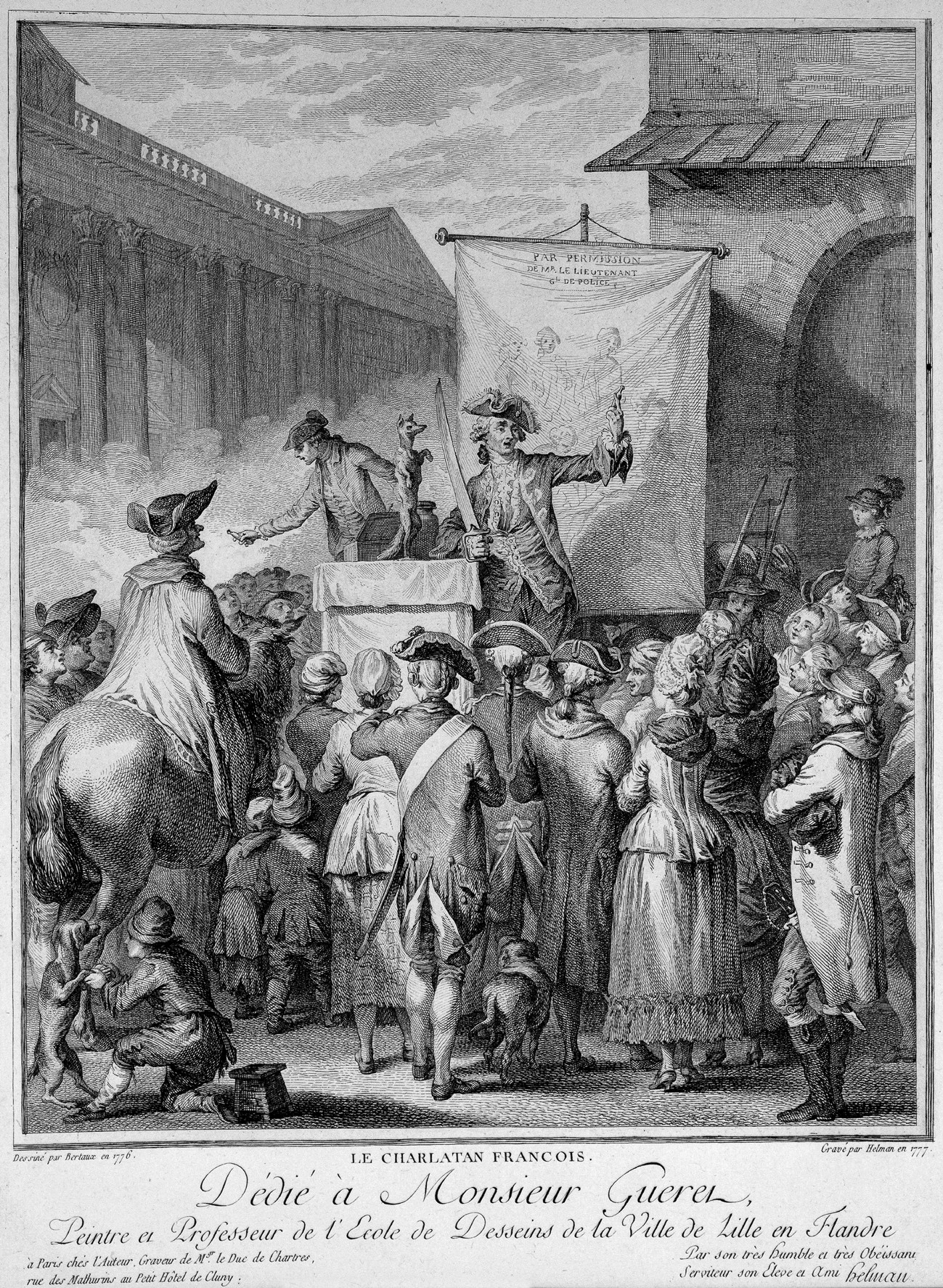 A French itinerant medicine vendor on stage selling his wares. Engraving by I. Helman, 1777, after J. Bertaux, 1776. Iconographic Collections Keywords: itinerant salesman; quack doctor; Isidore-Stanislas Helman; charletan; Louis Jean Guéret; Jacques Bertaux; j bertaux; i helman; ic; medicine vendor